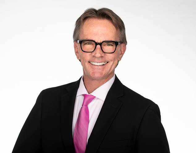 Robert Hill, 2018